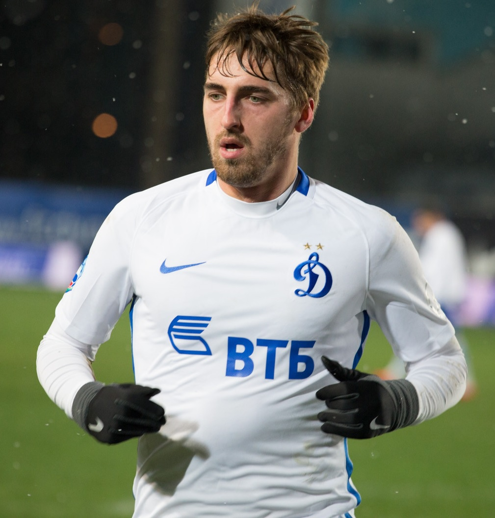 Ivan Markelov with FC Dynamo Moscow in a game against FC Yenisey Krasnoyarsk.